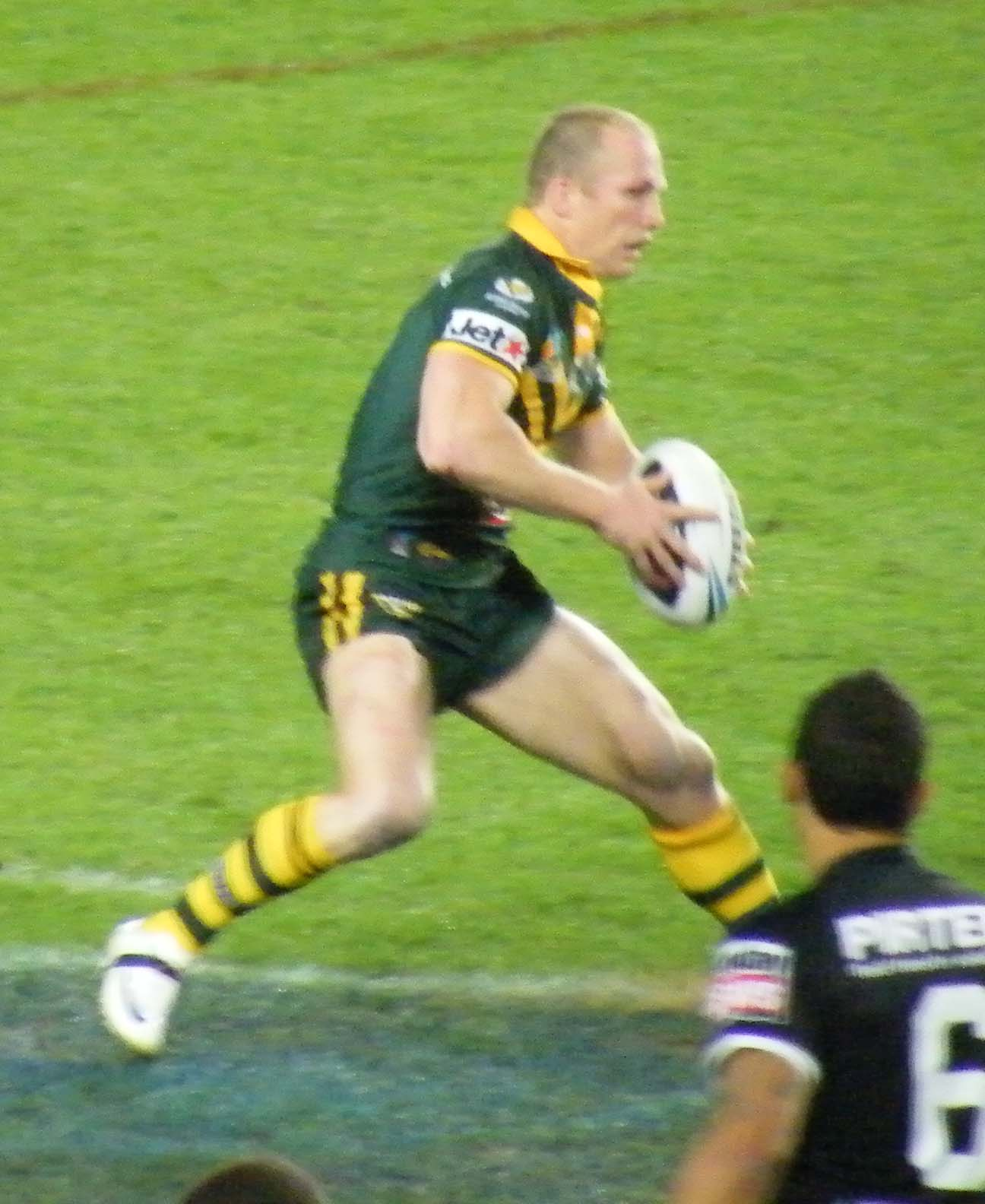 Australian captain Darren Lockyer. RLWC 2008.